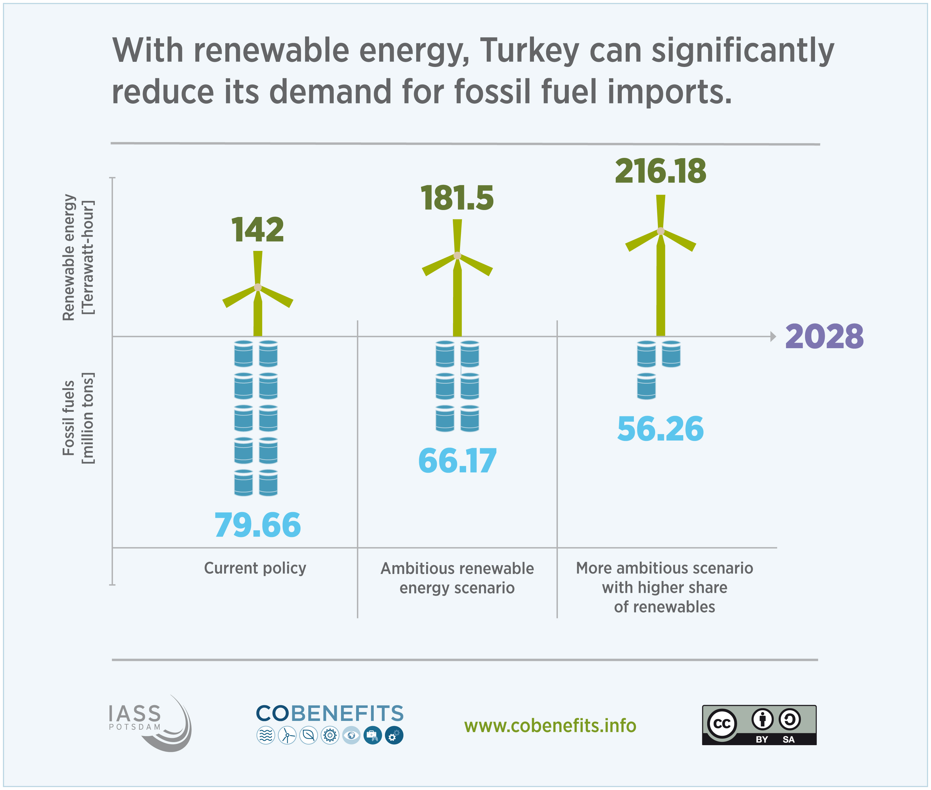 3 scenarios to 2028 for renewable energy generation in Turkey and corresponding fossil fuel imports